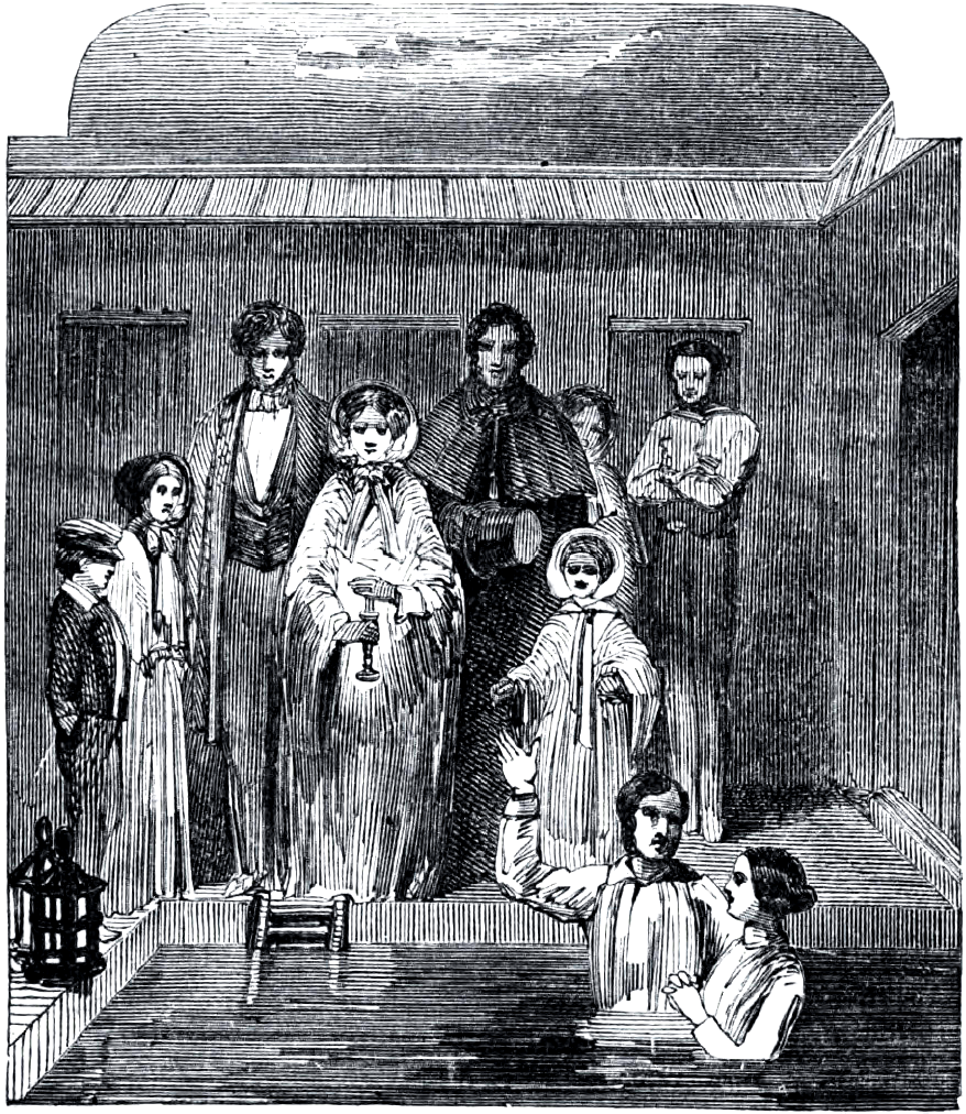 Drawing of a Mormon baptism ceremony, circa the 1850s.